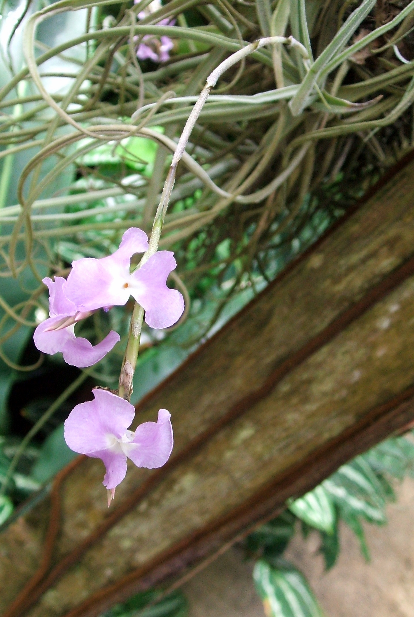 Tillandsia streptocarpa at Marie Selby Botanical Gardens, Sarasota, Florida, USA (flower)